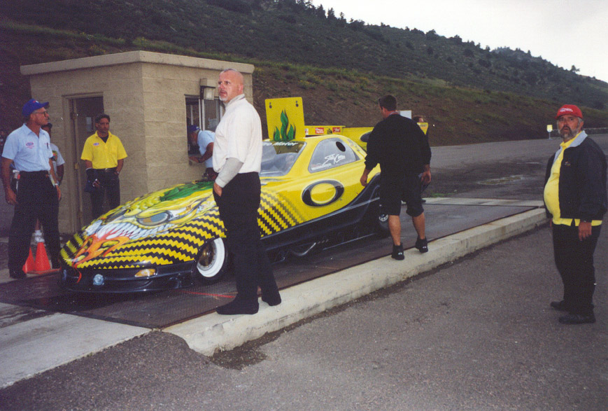 Scotty Cannon, Denver 1999. Cannon is an NHRA funny car driver in the U.S.Scotty Cannon